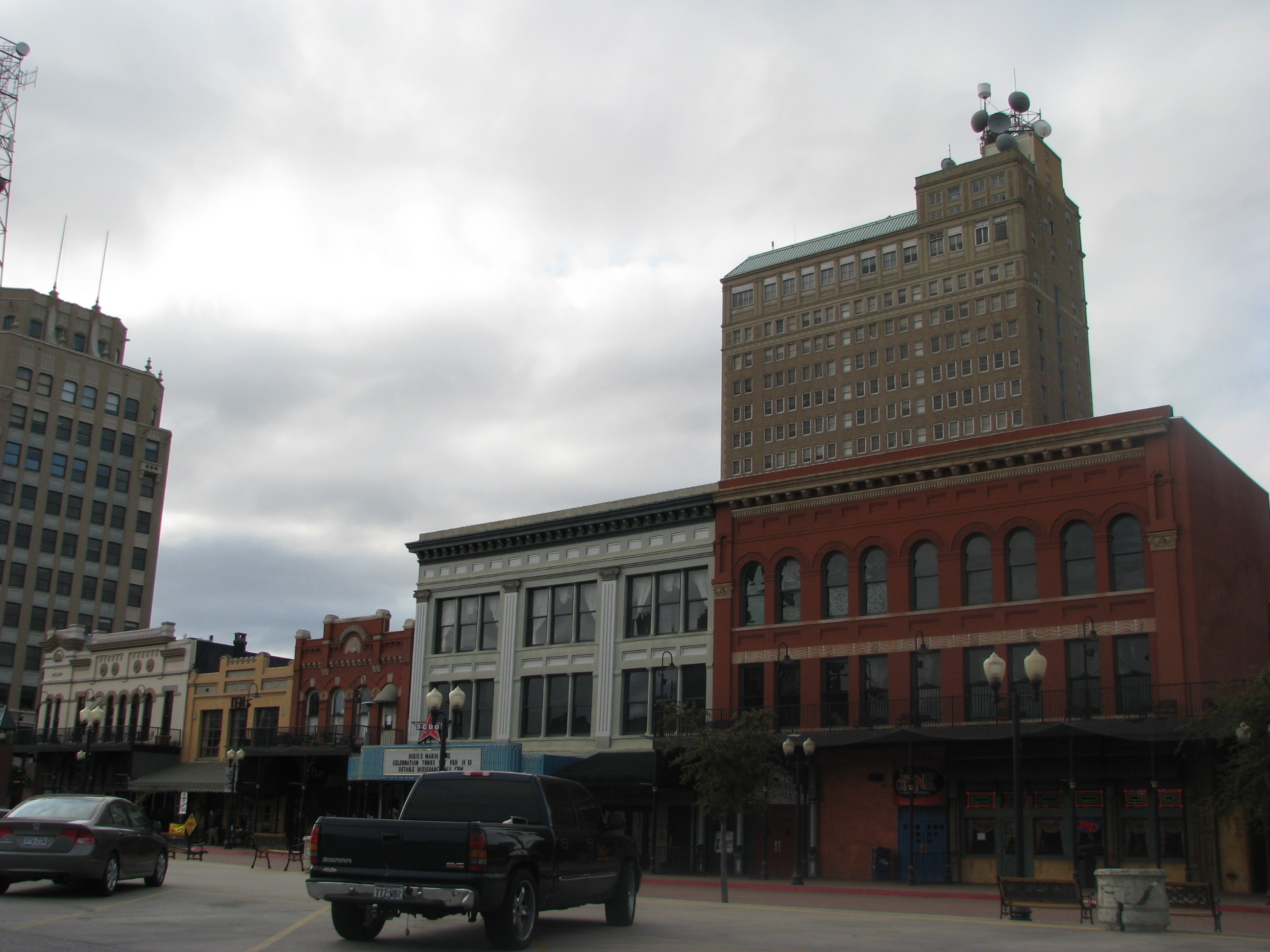 Crockett Street Complex in downtown Beaumont, Texas.